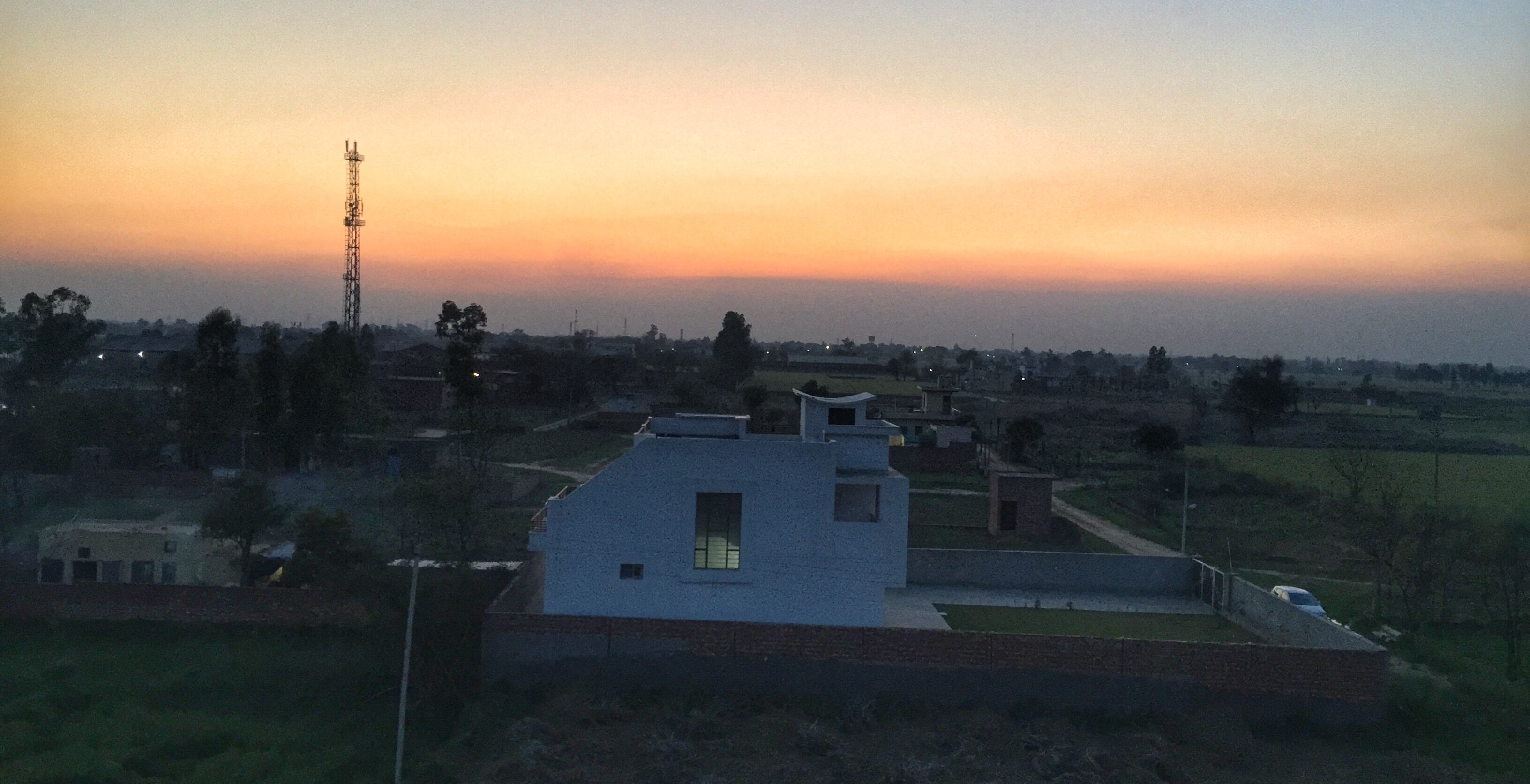 Side view of Bhawanigarh from Nabha Road